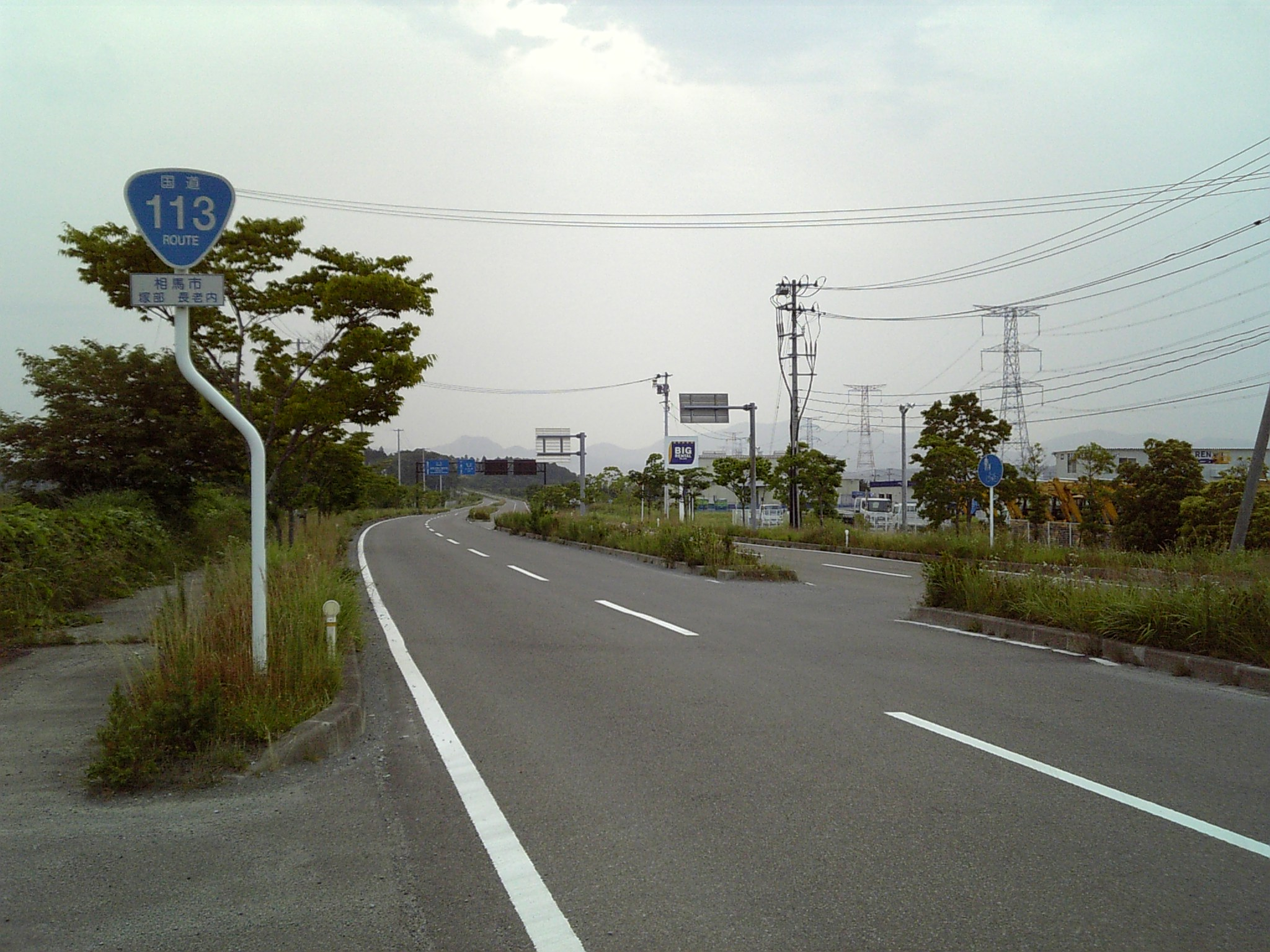 Soma City, Fukushima Prefecture, in the end(the intersection of Route 6 bypass Soma) near the Route No. 113